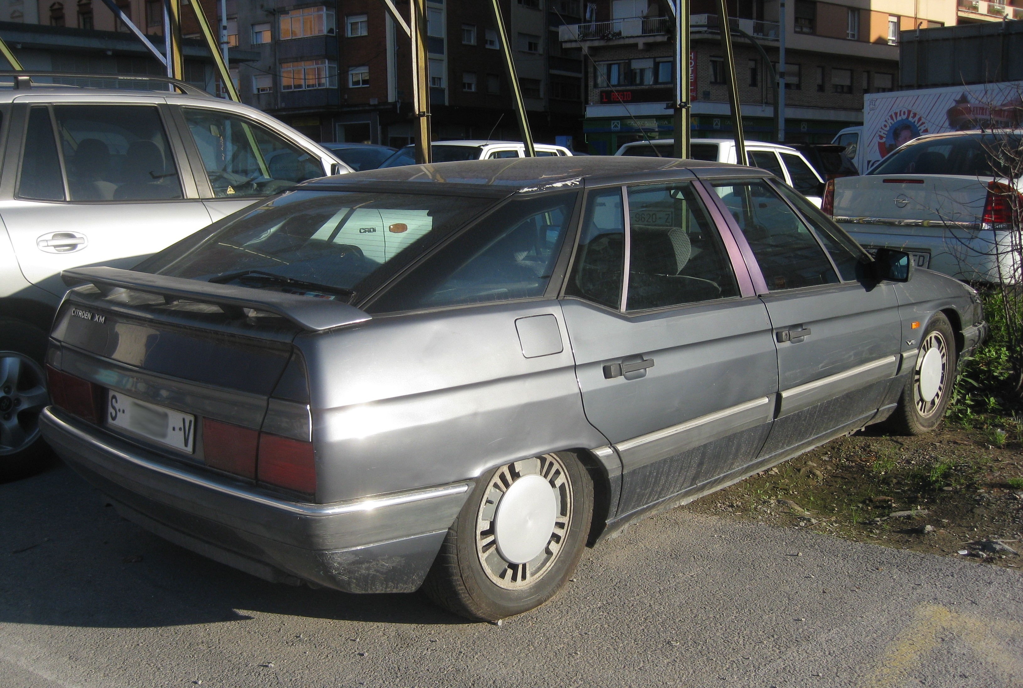 Very nice first series XM, something tells me it's abandoned, it's been sitting there for quite a while now :/ It had a 1990 plate from Santander (Cantabria).